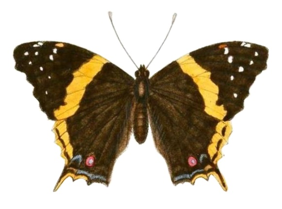 Boisduval, J.B.A. (1833): Mémoire sur les Lépidoptères de Madagascar, Bourbon et Maurice. Nouvelles Annales du Muséum d’Histoire Naturelle. Paris 2:149-270. Plate 8 figure 3 Vanessa hippomene madegassorum, female